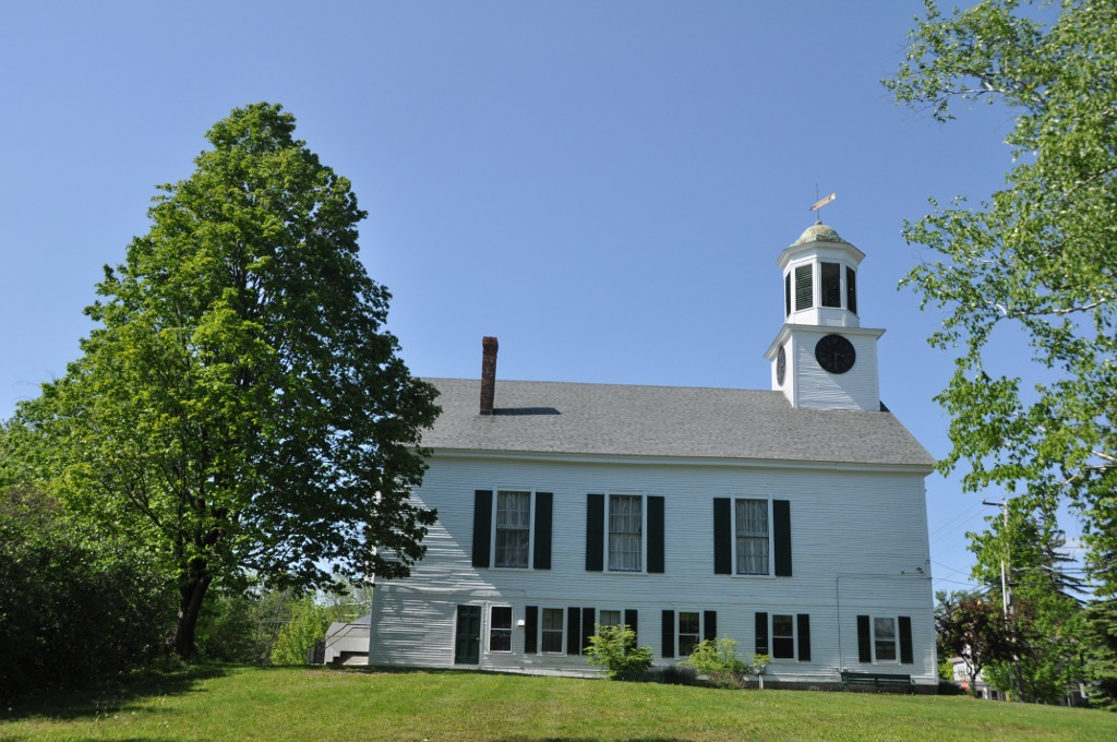 The town hall of Mont Vernon, New Hampshire.